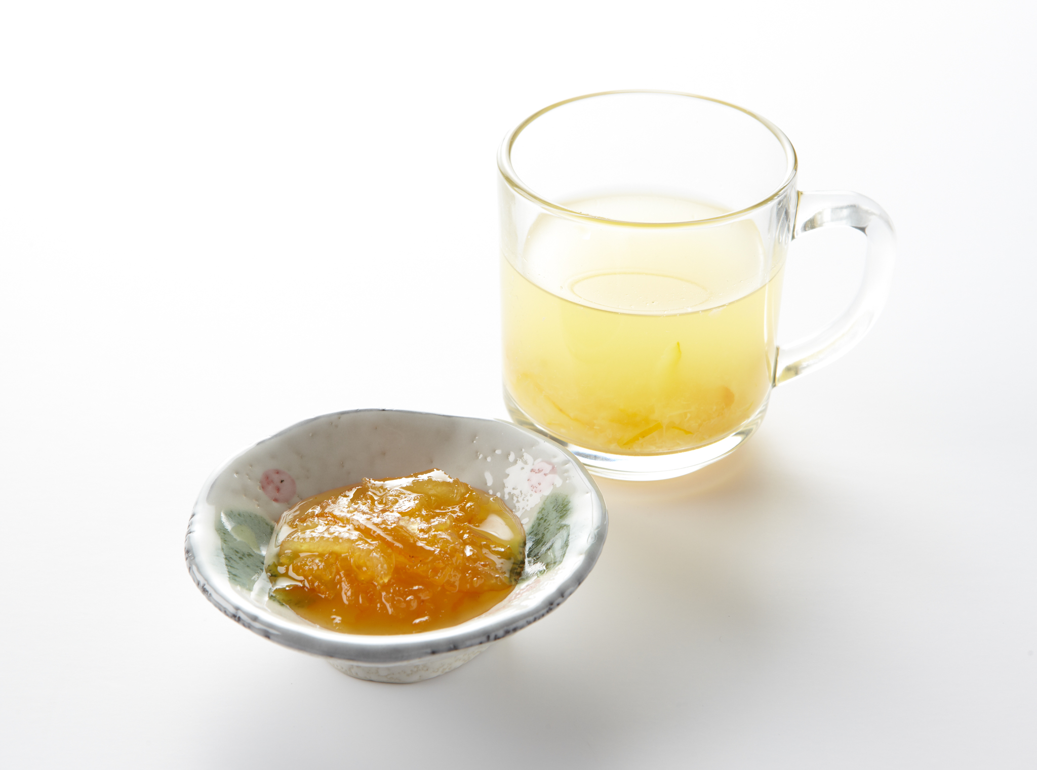 yujacha(yuja tea) and yujacheong(yuja marmalade)